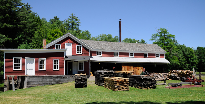 A photograph of the millhouse at the Hanford Mills Museum, East Meredith, NY.